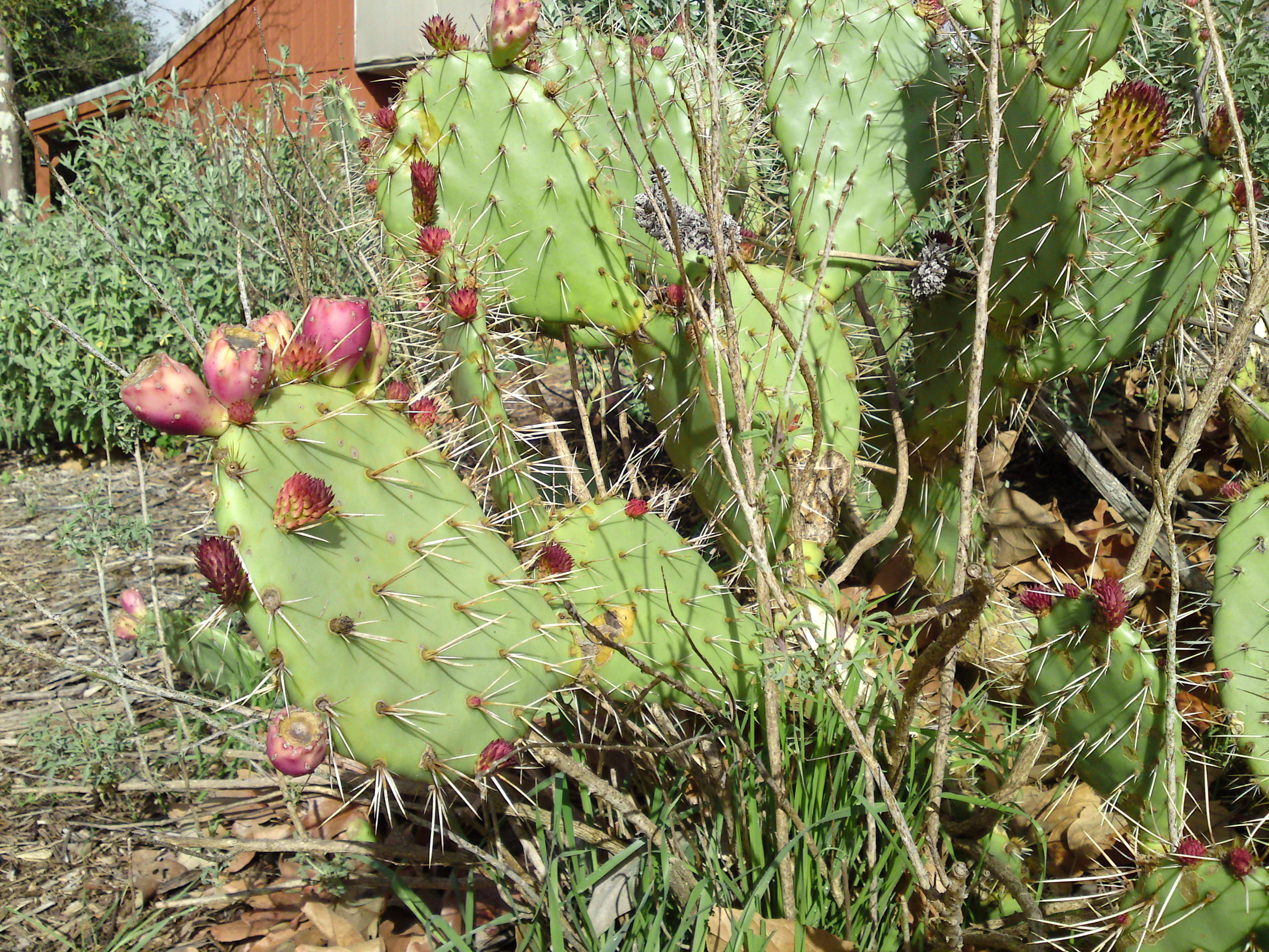 Coast Prickly Pear (Opuntia littoralis) with fruits. At Rancho Guadalasca — in the Santa Monica Mountains, southern California.